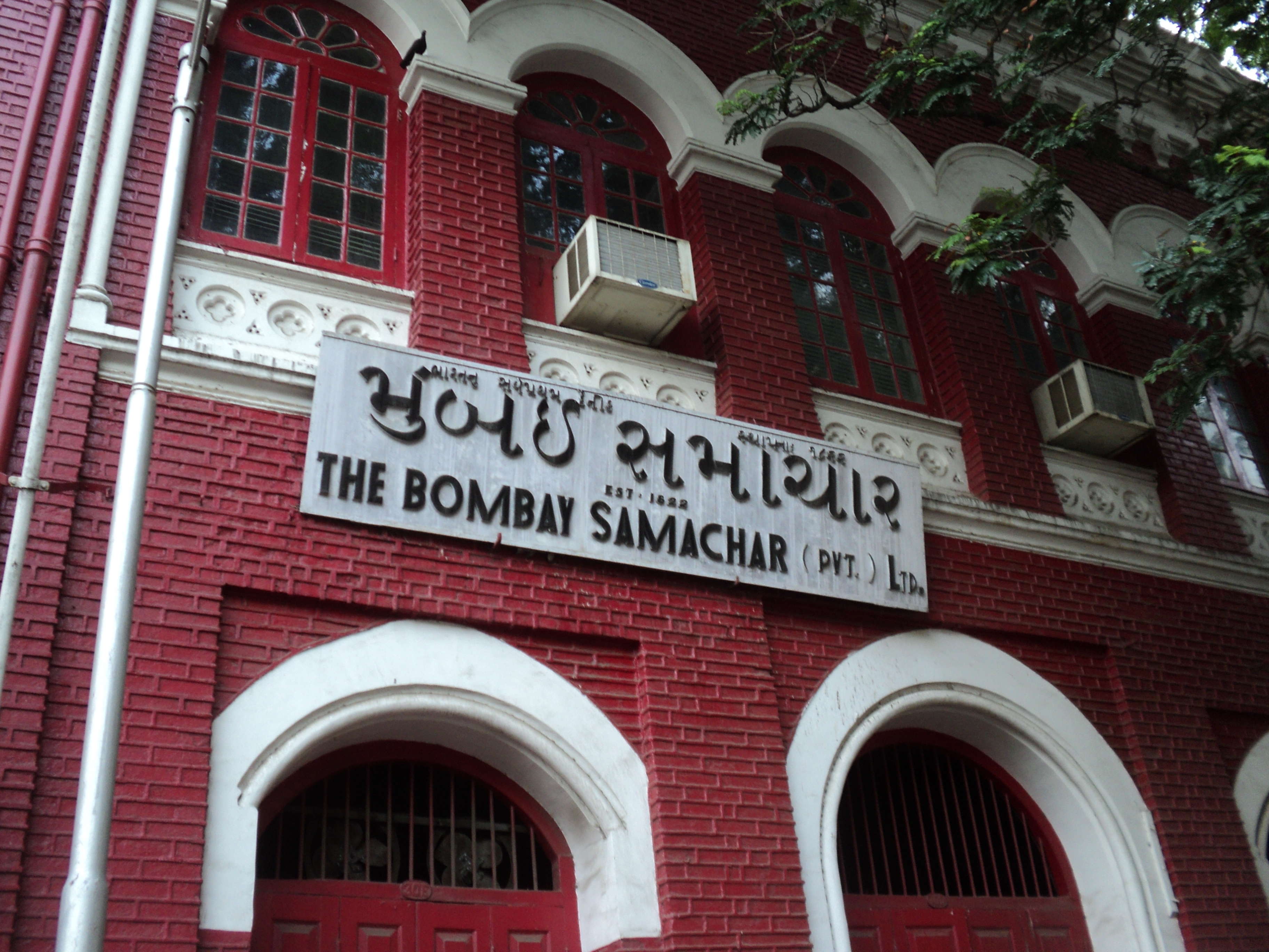 Mumbai Samachar Head Quarters